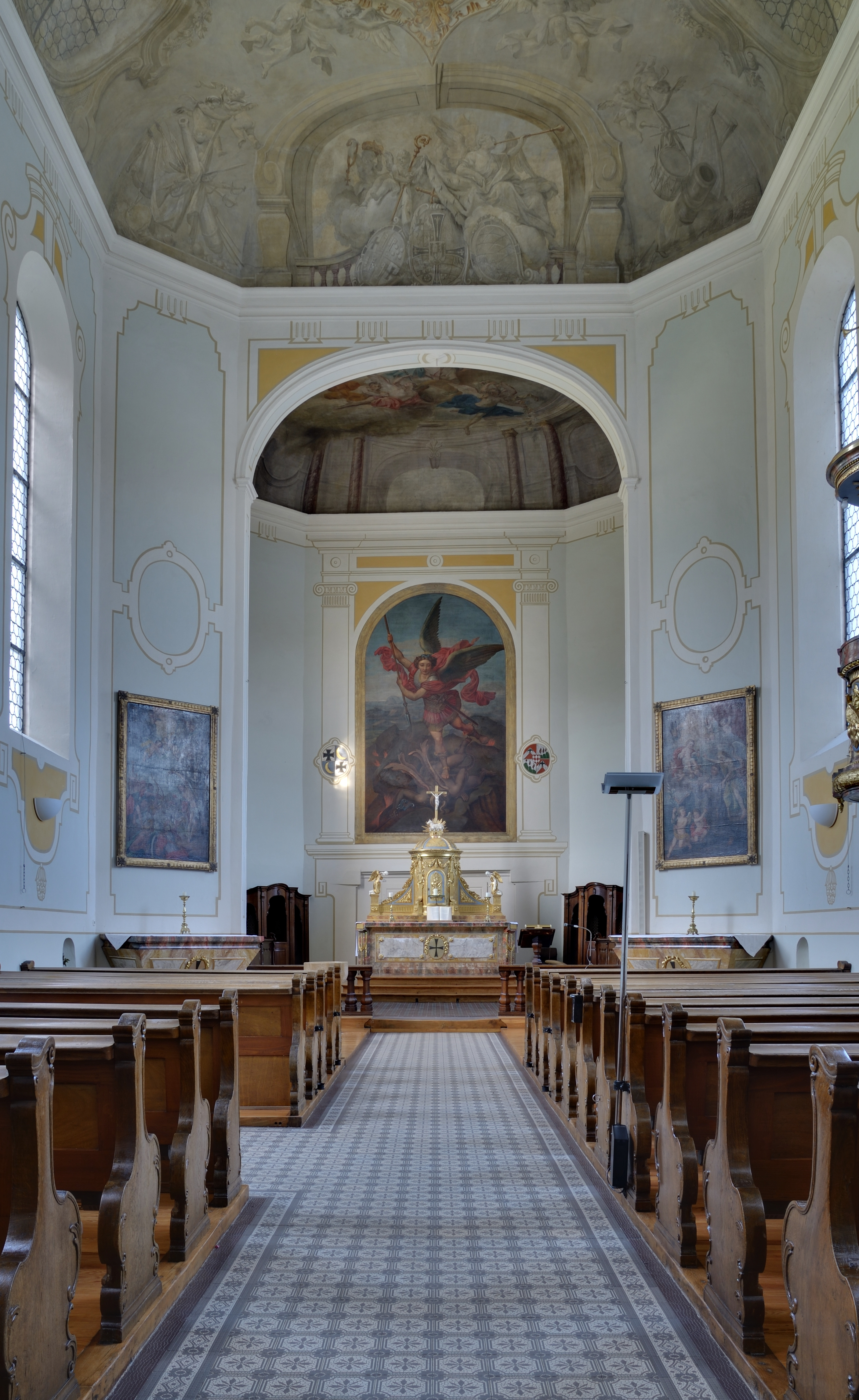 Rheinfelden: castle church Beuggen